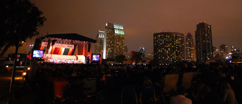 San Diego Symphony Summer Pops 2008 - "Motown Magic with Mary Wilson"